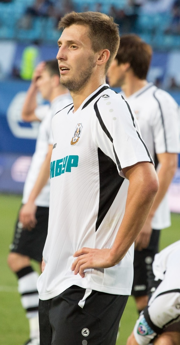 Ivan Chudin with FC Tyumen in a game against FC Dynamo Moscow.